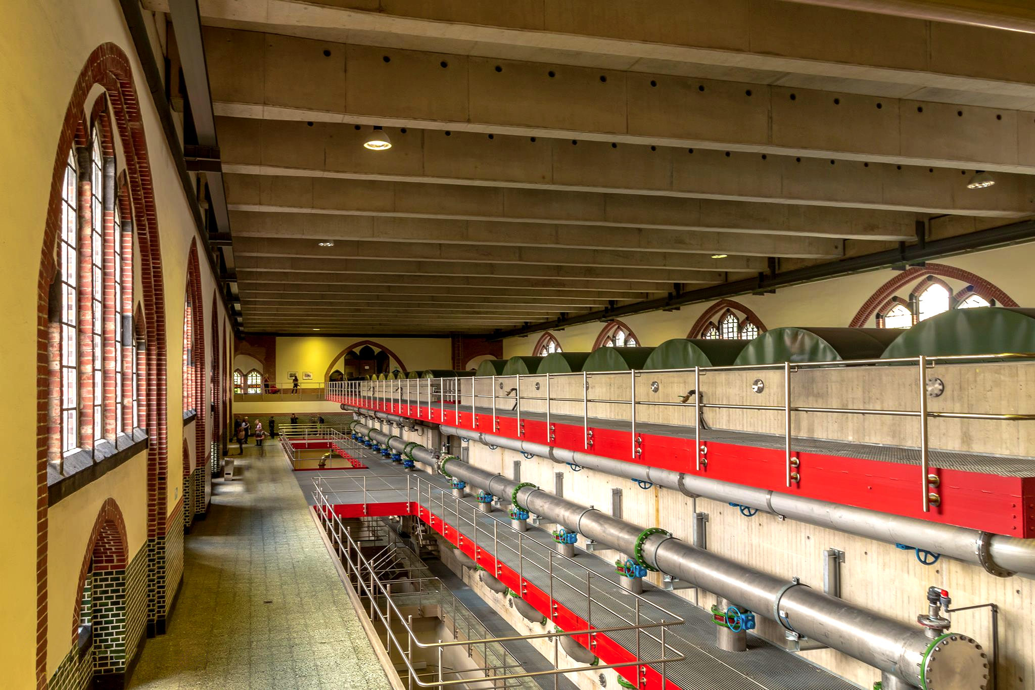 Pumping station, Heat-only boiler station South, Cologne